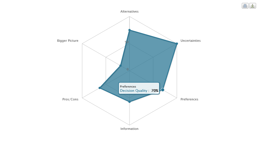 Graphical representation of the six elements of decision quality received in response to a decision query.